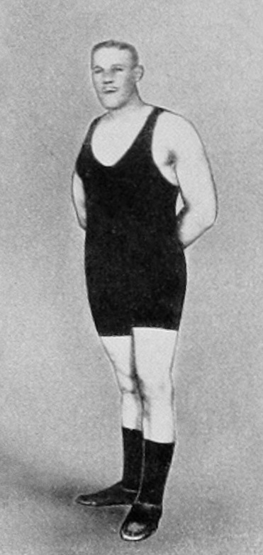 Claes Johansson at the 1912 Summer Olympics